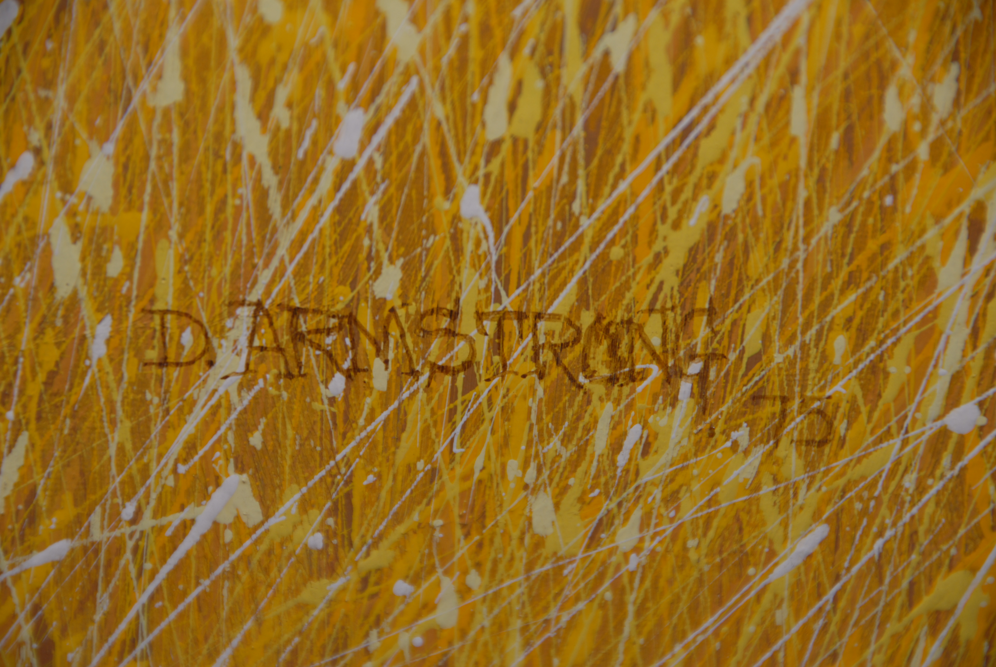 Photograph of Duane Albert Armstrong's signature